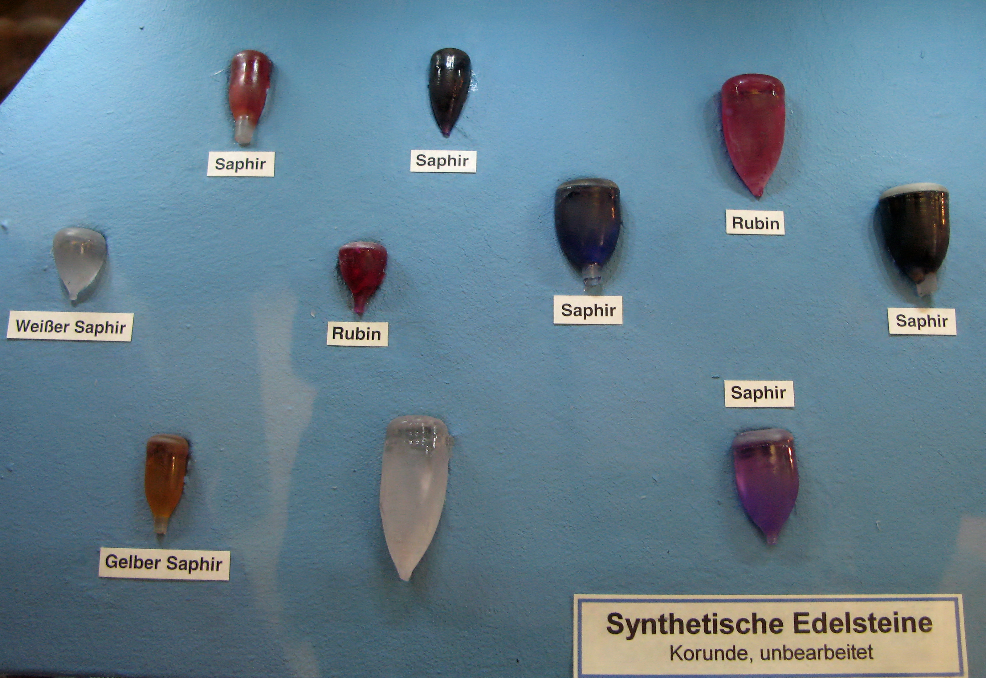 Corundum synthetic, melting bulbs - Exposed in the Mineralogical Museum, Bonn, Germany